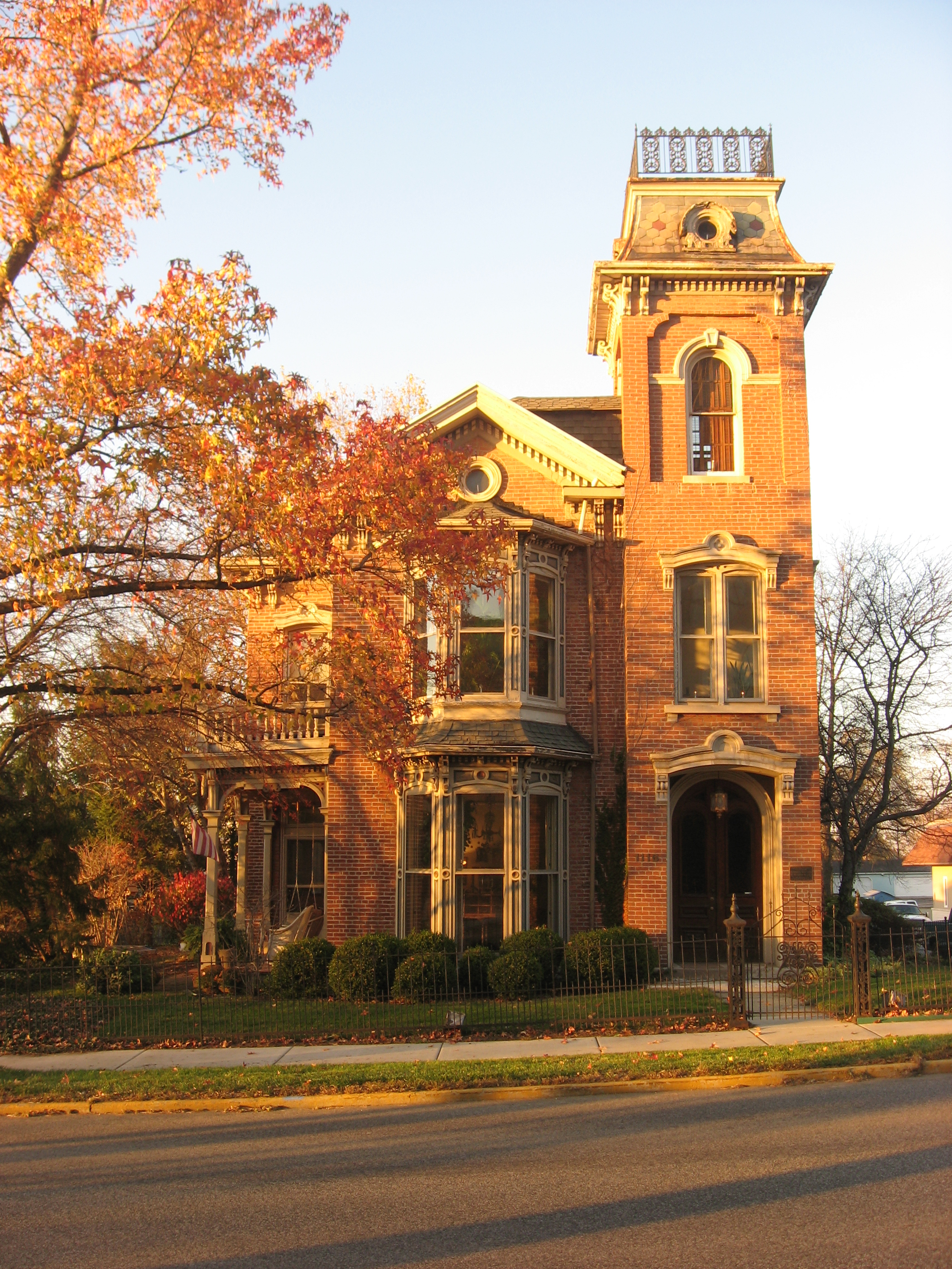 Front of the James H. Ward House, located at 1116 Columbia Street in Lafayette, Indiana, United States. Built in 1875, it is listed on the National Register of Historic Places.